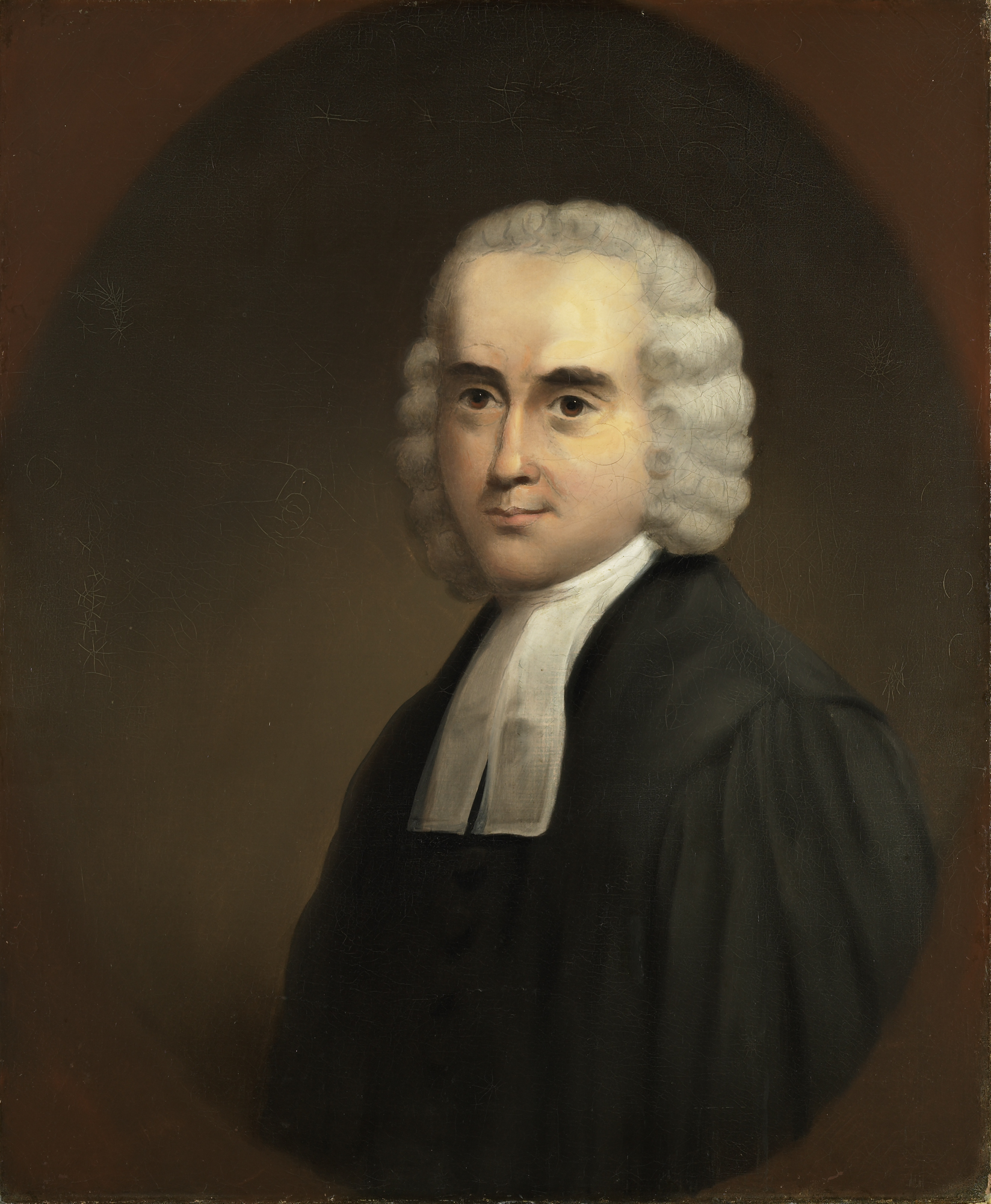 Edward Ludlow Mooney, American, 1813–1887 Jonathan Dickinson (1688–1747), President (1747) Oil on canvas 74.6 x 62.1 cm. (29 3/8 x 24 7/16 in.) (sight) 111.8 x 94 cm. (44 x 37 in.) (frame) Princeton University, gift of the artist PP6